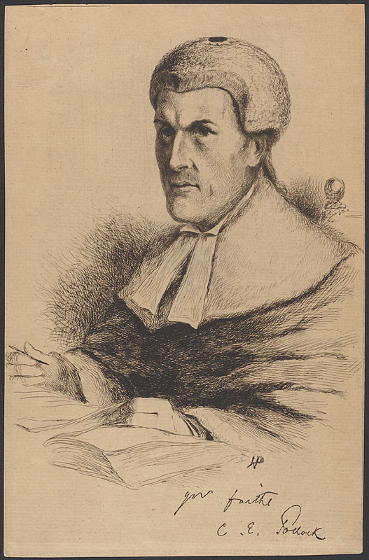 Sir Charles Edward Pollock (1823-1897)